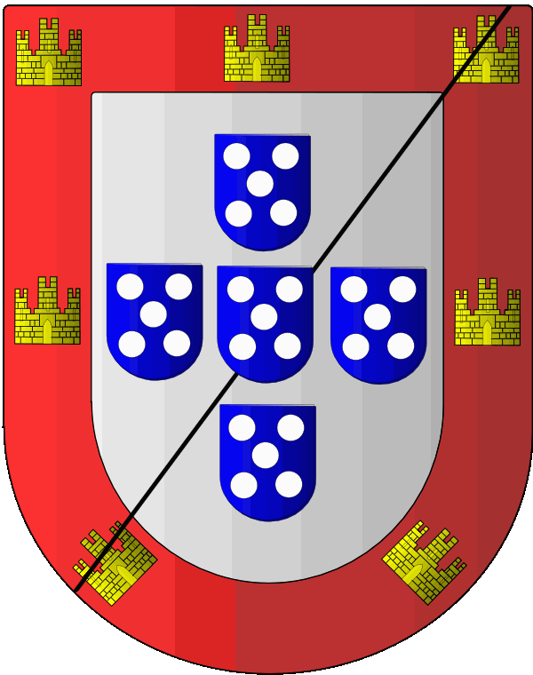 Arms of the Portuguese Lencastre family (Dukes of Aveiro) Made by JSobral